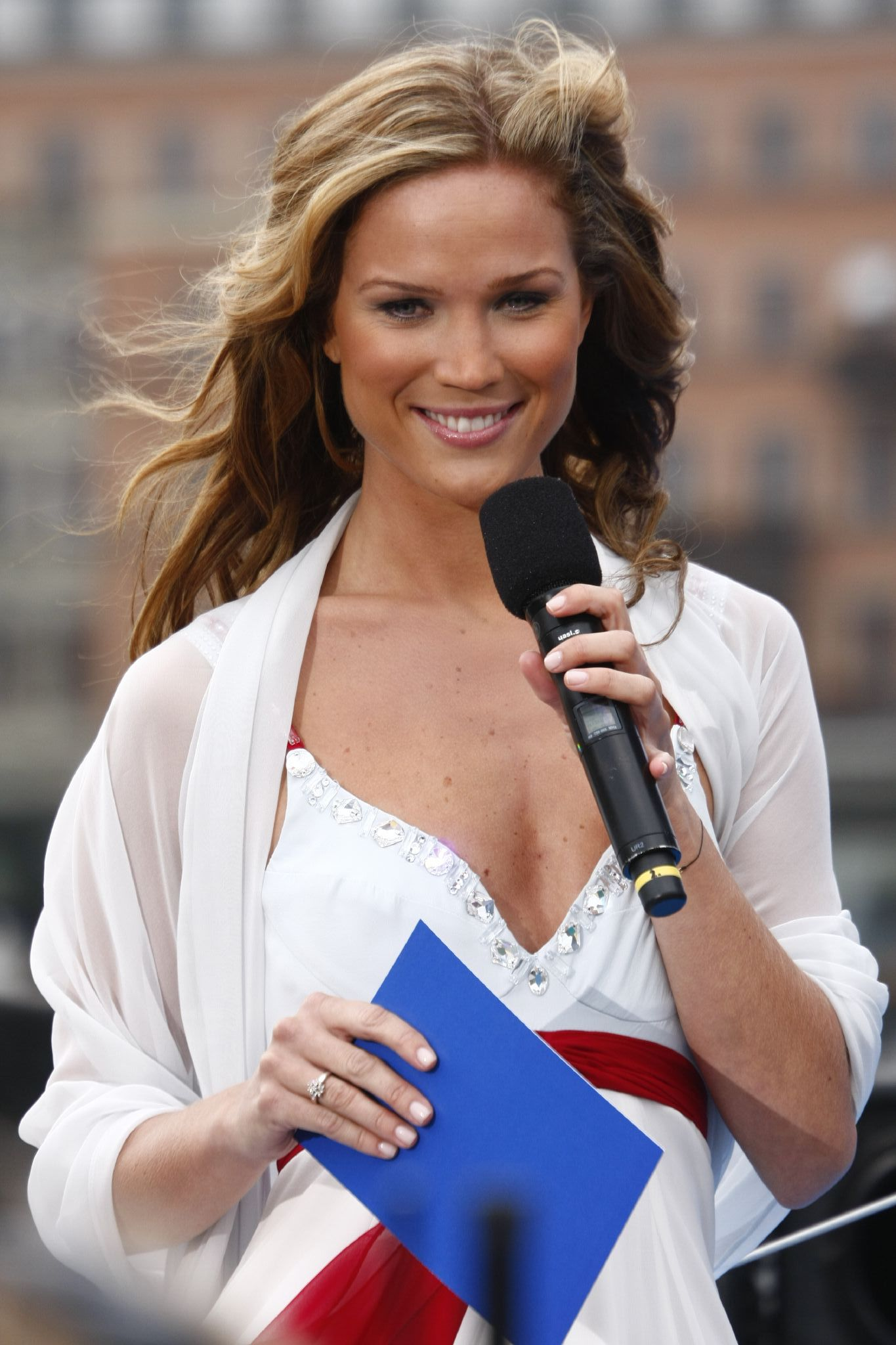 Marie Serneholt hosting a National Day celebration